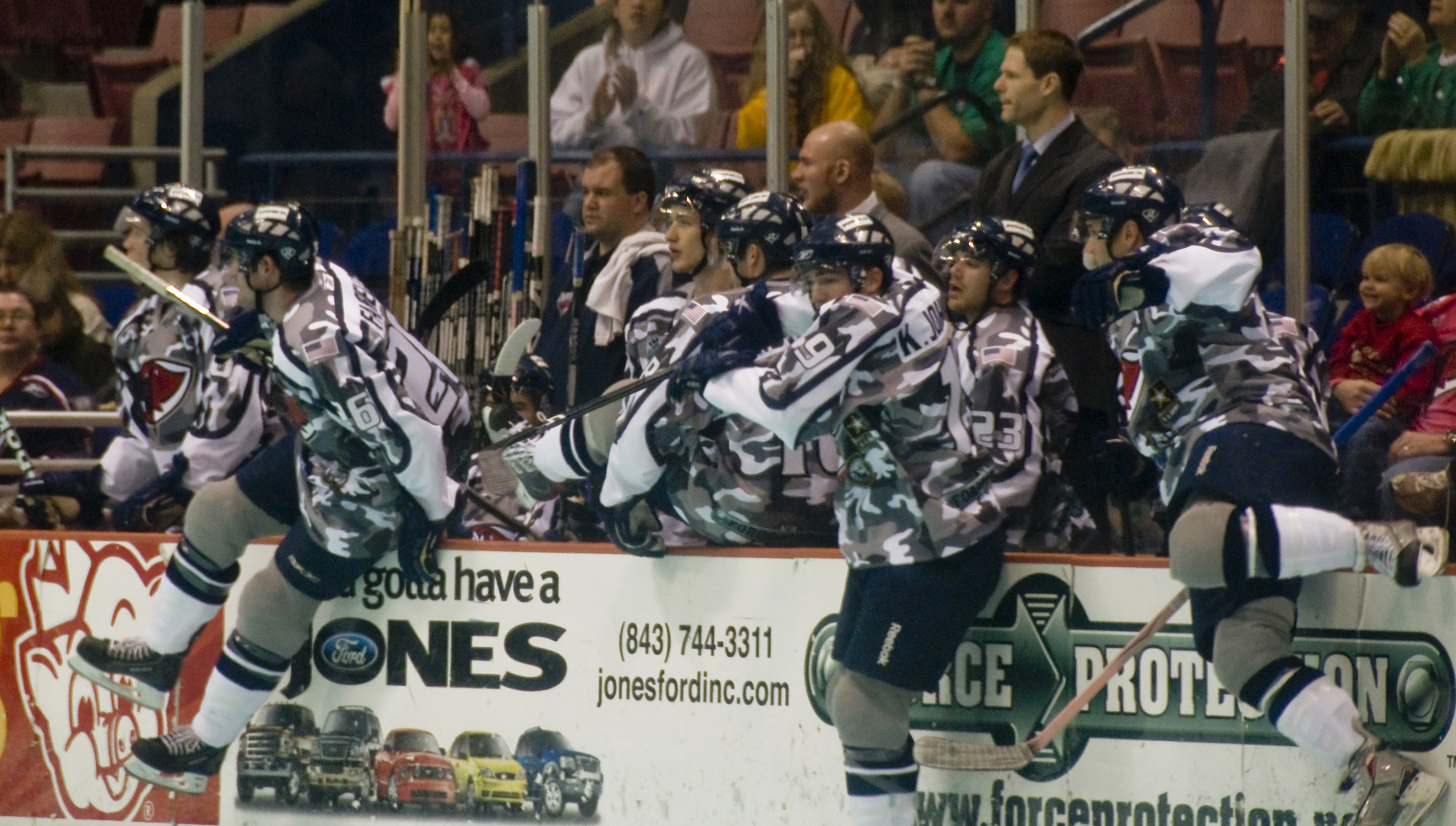 Members of the South Carolina Stingrays hockey team leap from the players box onto the ice for a quick line change during the military appreciation night hosted at the North Charleston Coliseum March 12. The team is still battling for the South Division and American Conference Titles, but is the first team to secure a playoff spot in the American Conference. (U.S. Air Force photo/Staff Sgt. Daniel Bowles)